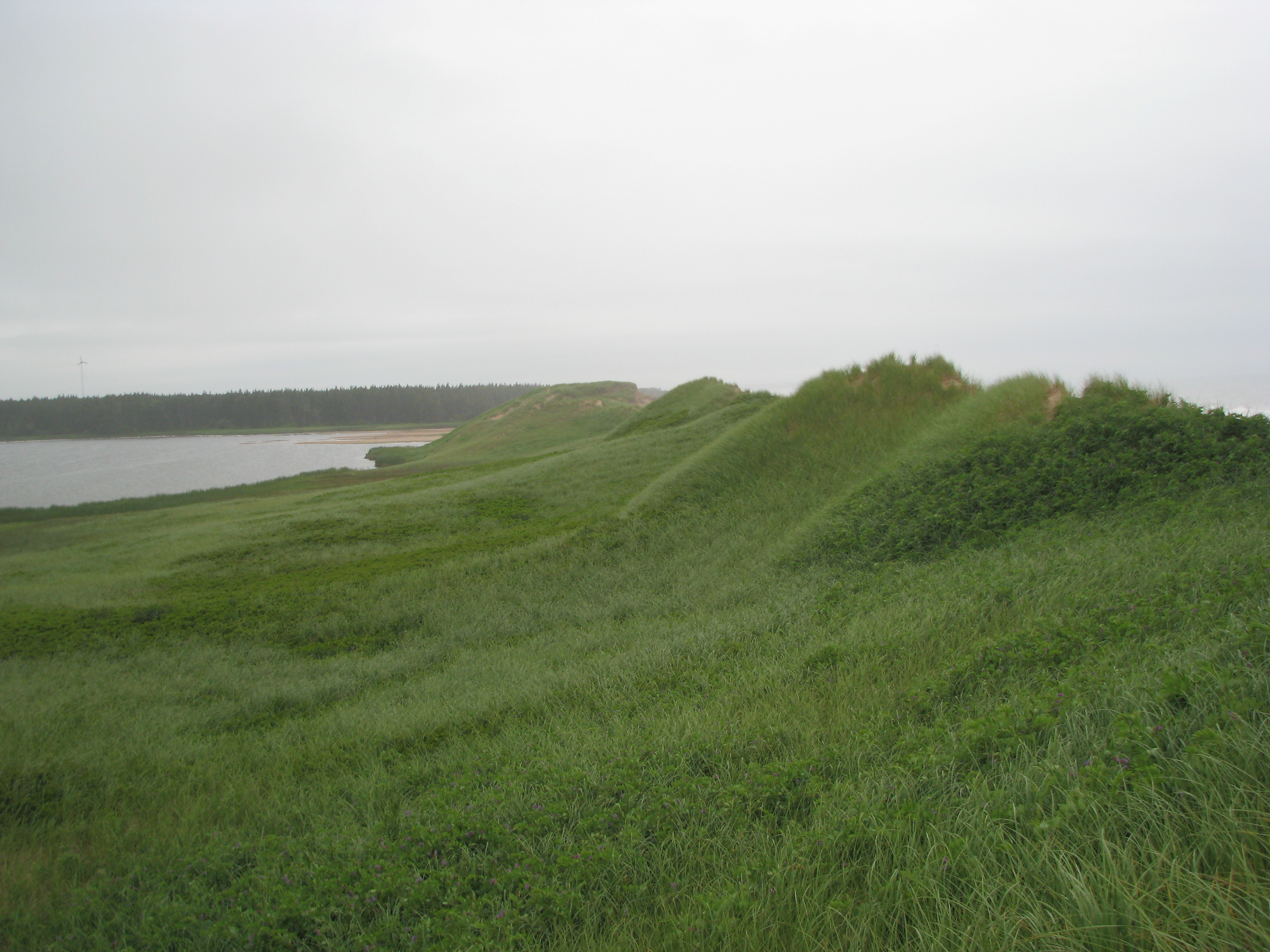 Grass-Covered dunes on Prince Edward Island